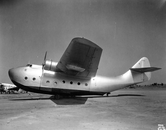 Douglas DF